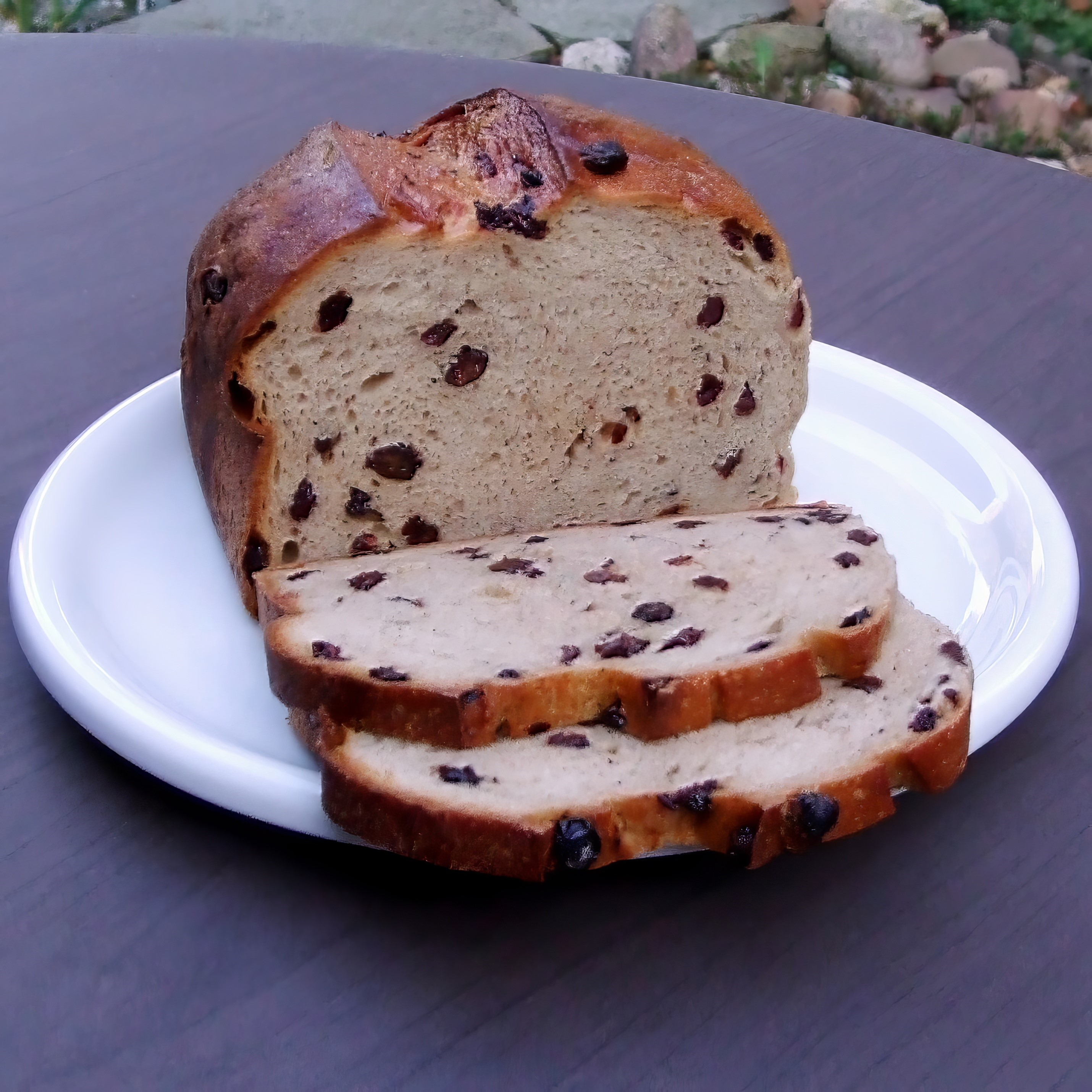 Onjeschwedde or Ongeschwedde is a bread speciality from the former town of Rheydt (now part of Mönchengladbach).